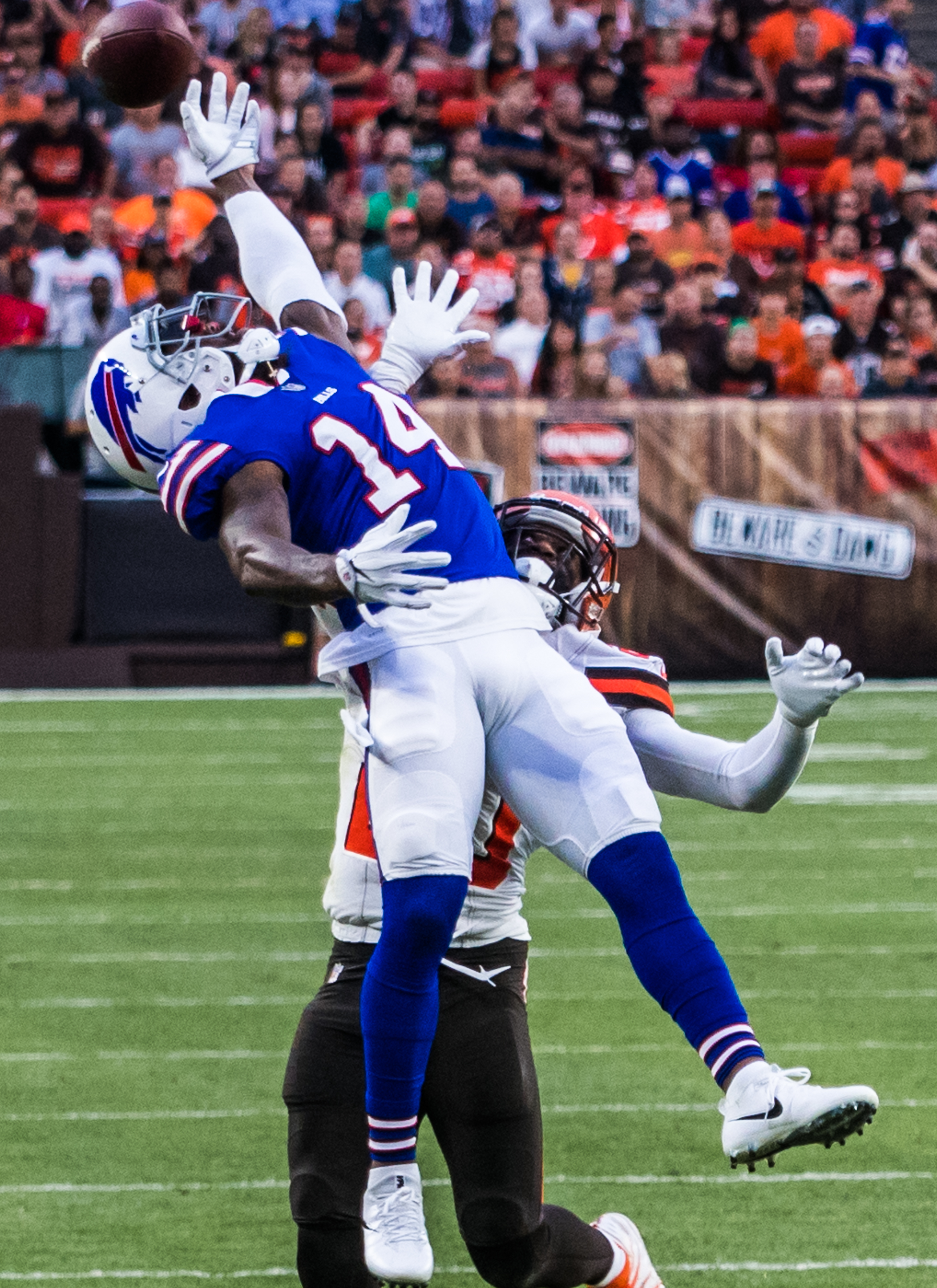 Cleveland Browns vs. Buffalo Bills